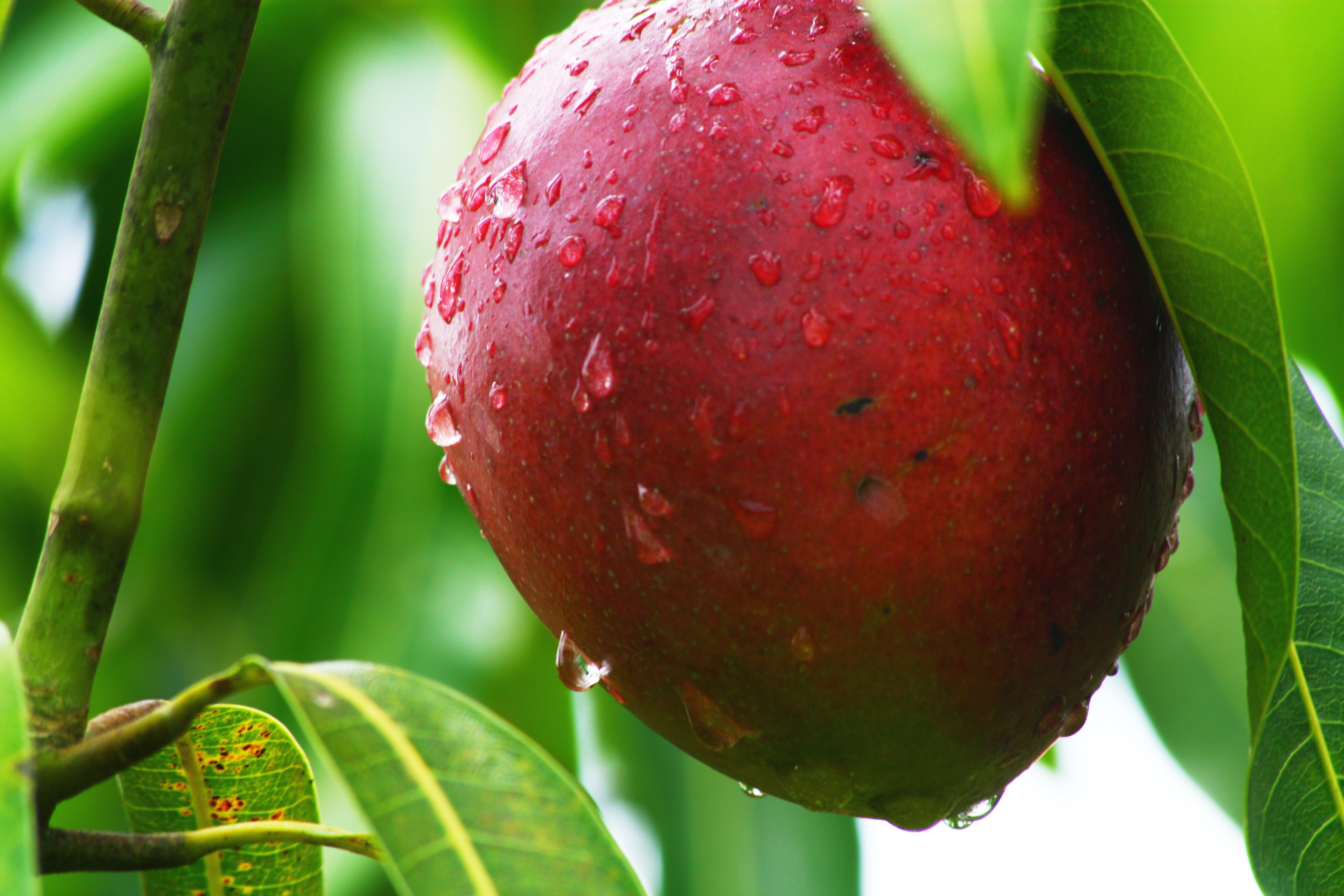 Mango